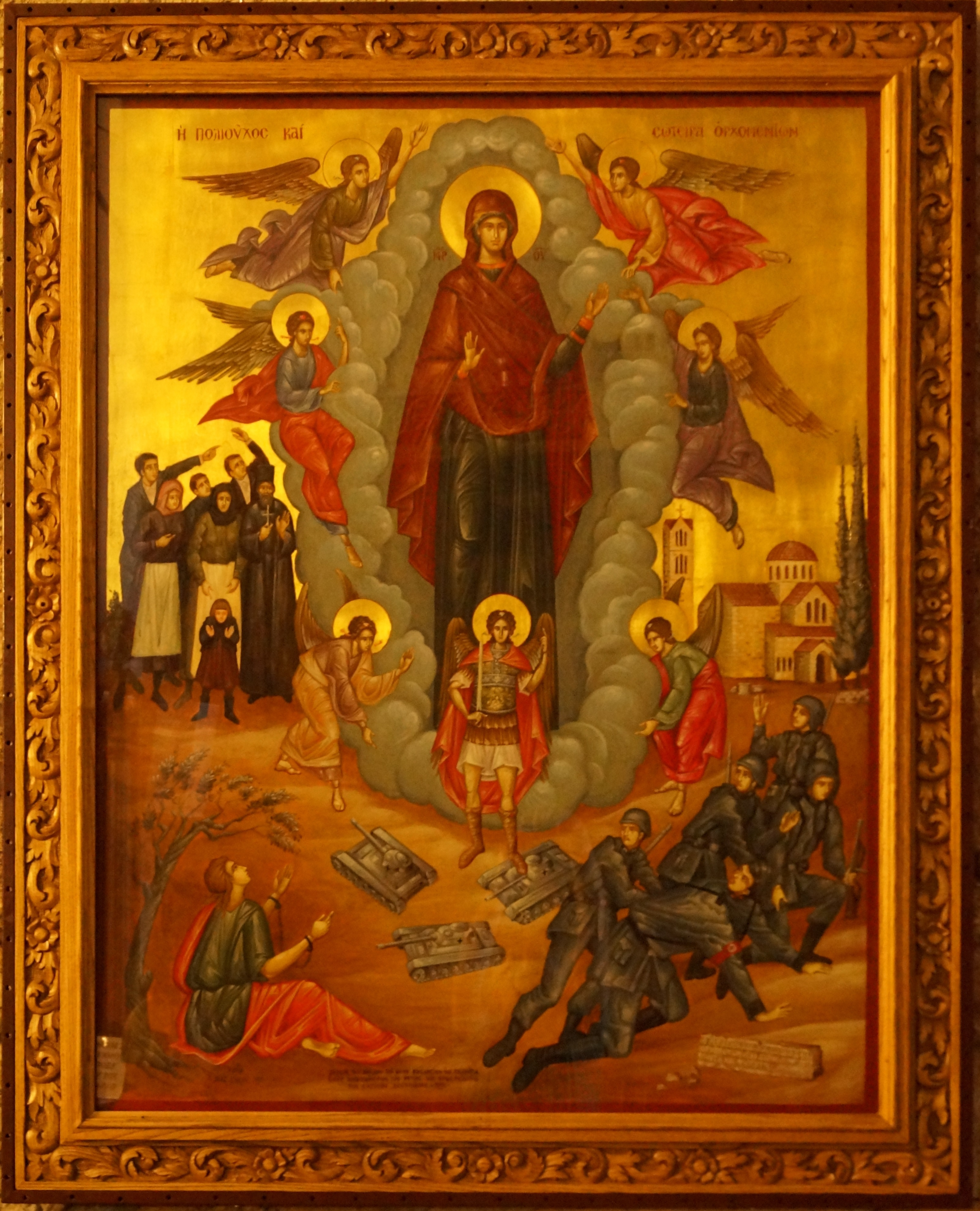 Orchomenos, Boeotia, Greece: Monastery Panagia Skripou, the icon inside the church shows the appearance of the Blessed Virgin Mary above the church on 10th september 1943. This caused the german invaders to cancel the attack of Orchomenos.